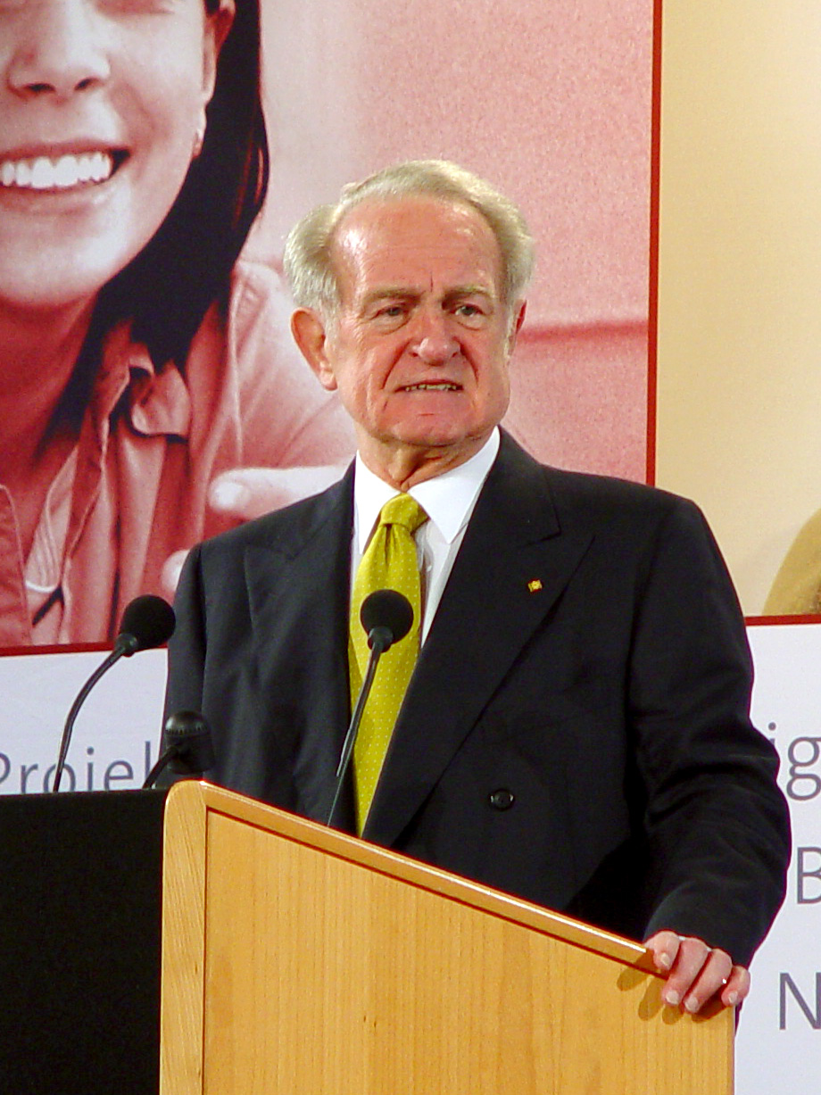 Johannes Rau, Germany's then Federal President, delivering a speech during the finale event of the debating competition "Jugend debattiert" in the main studio of the RBB ("Rundfunk Berlin-Brandenburg") in Berlin on May 16, 2004